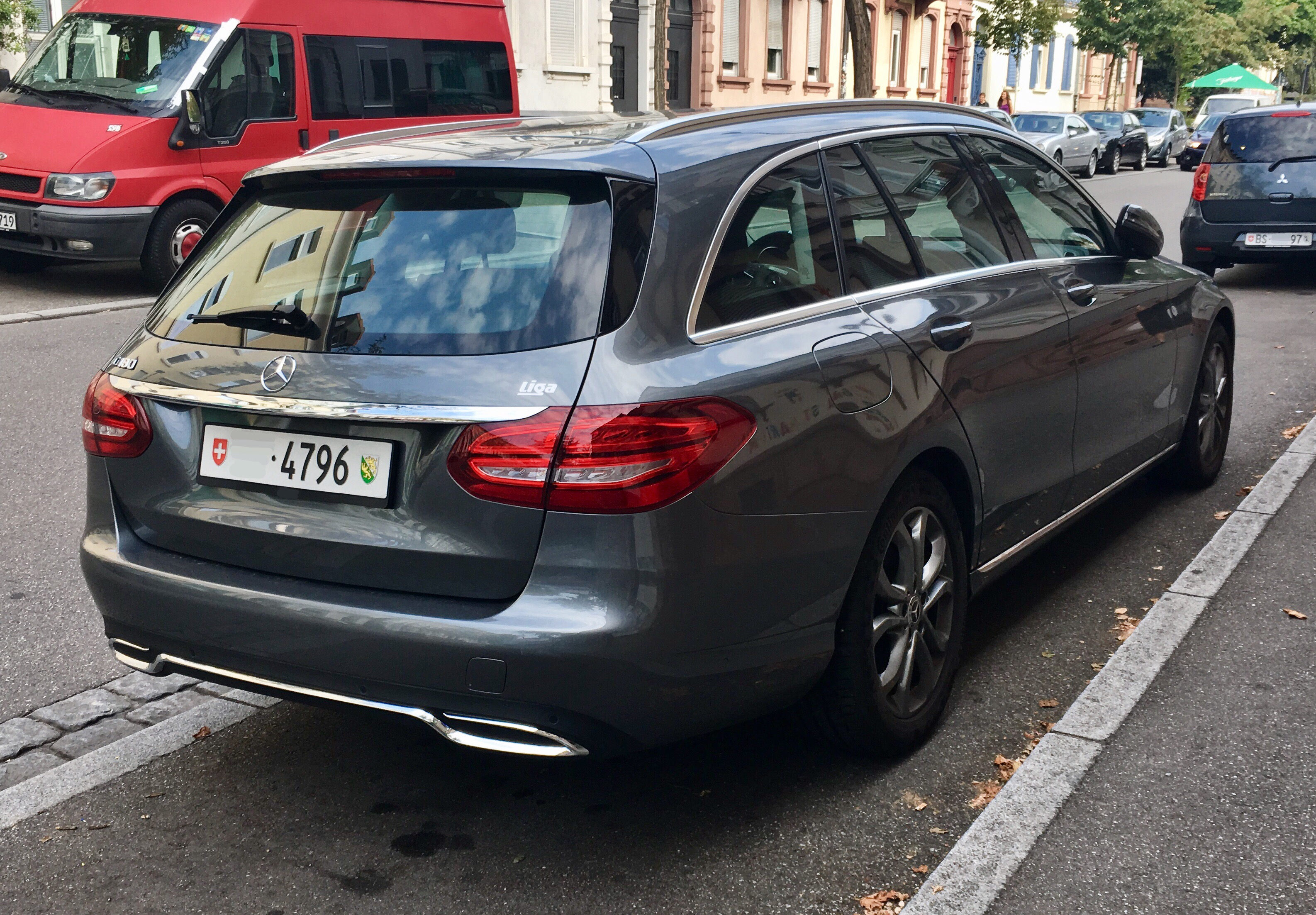 Mercedes-Benz C180 Wagon in Freiburg, Germany